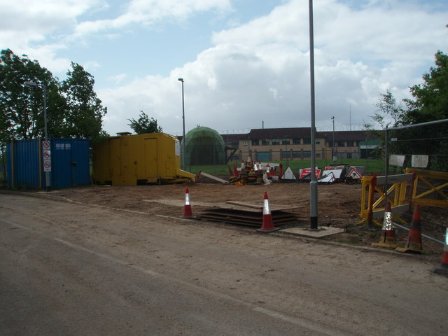 Hanslope Park Building work at the Foreign & Commonwealth Office site at Hanslope Park.